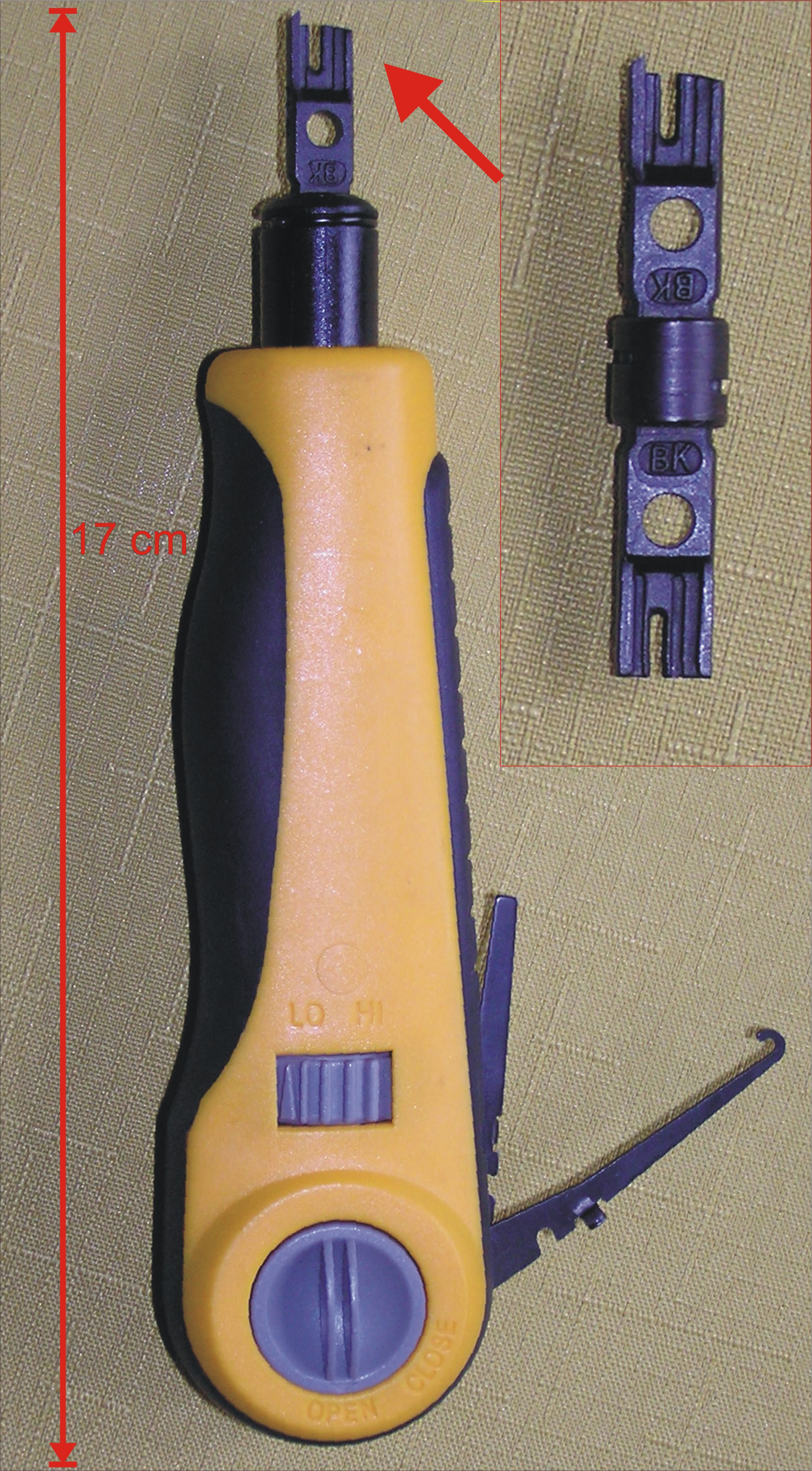 Impact Punch Down Tool